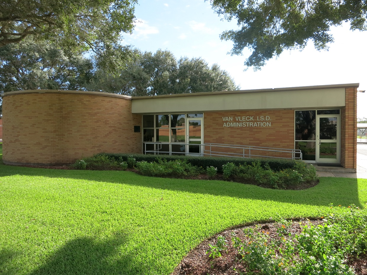 Photo shows the Van Vleck Independent School District Administration Building at 142 S. Fourth Street, Van Vleck, TX 77482. View is toward the southwest.